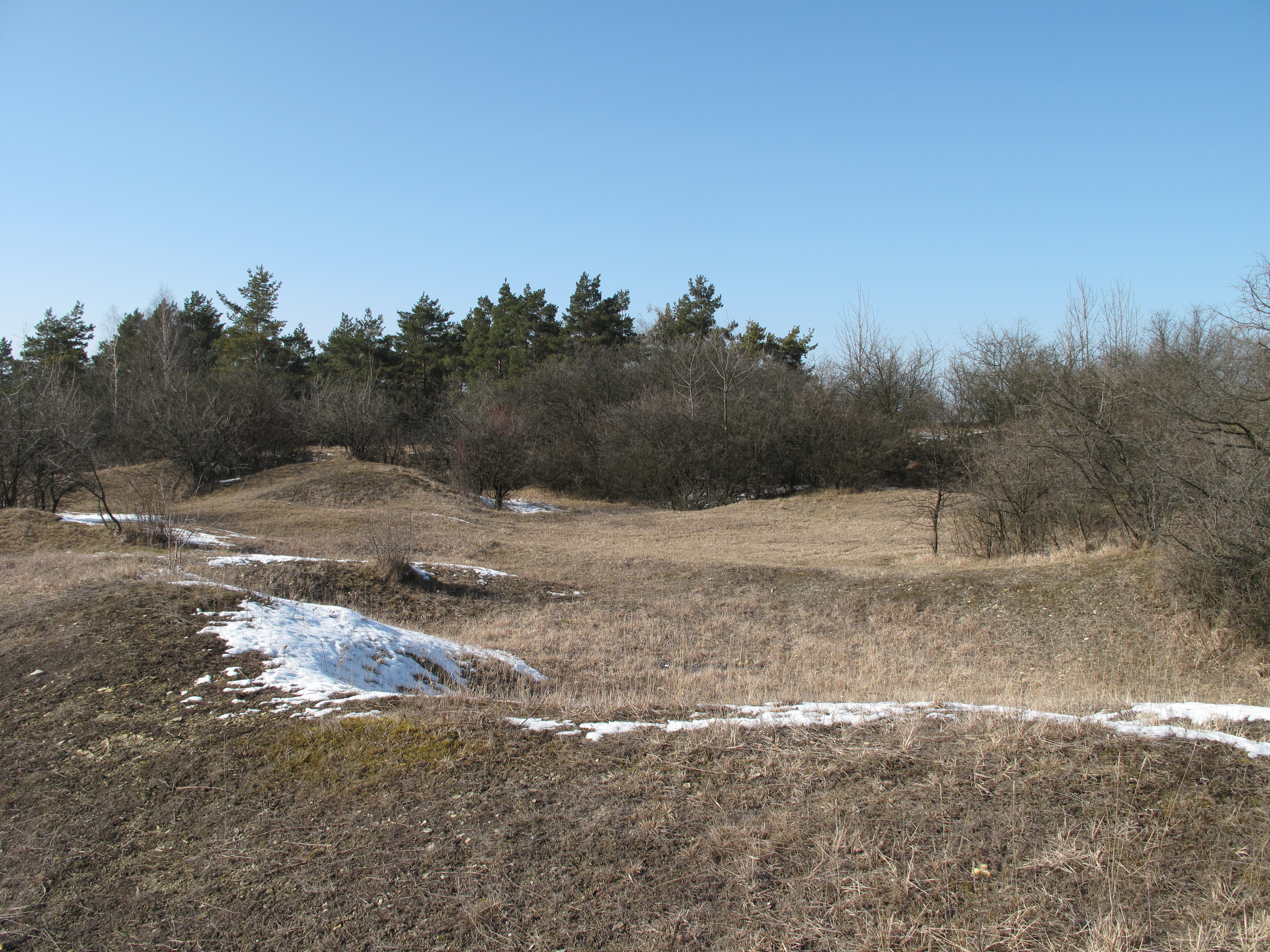 Section with former quaries in natural monument "Bouškova skalka", Kolubky Municipality, Kolín District, Czech Republic.